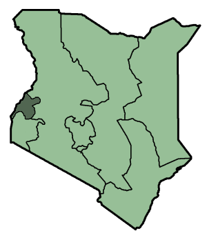 Western Province of Kenya